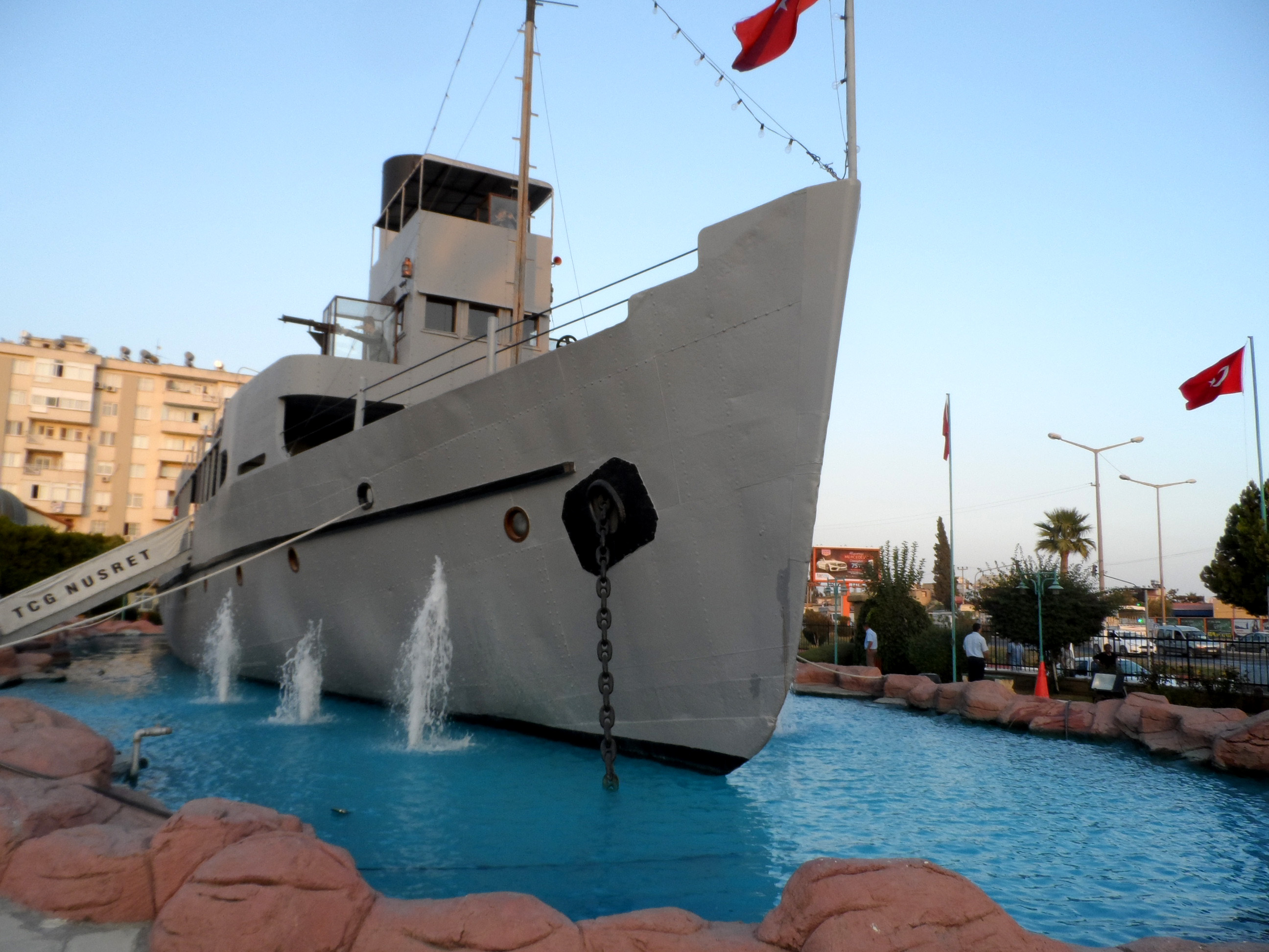 Nusrat minelayer in Tarsus Çanakkale Park